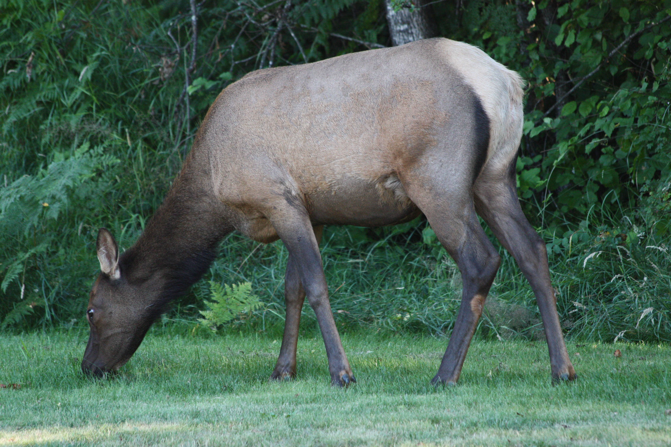 Elk female, not captive